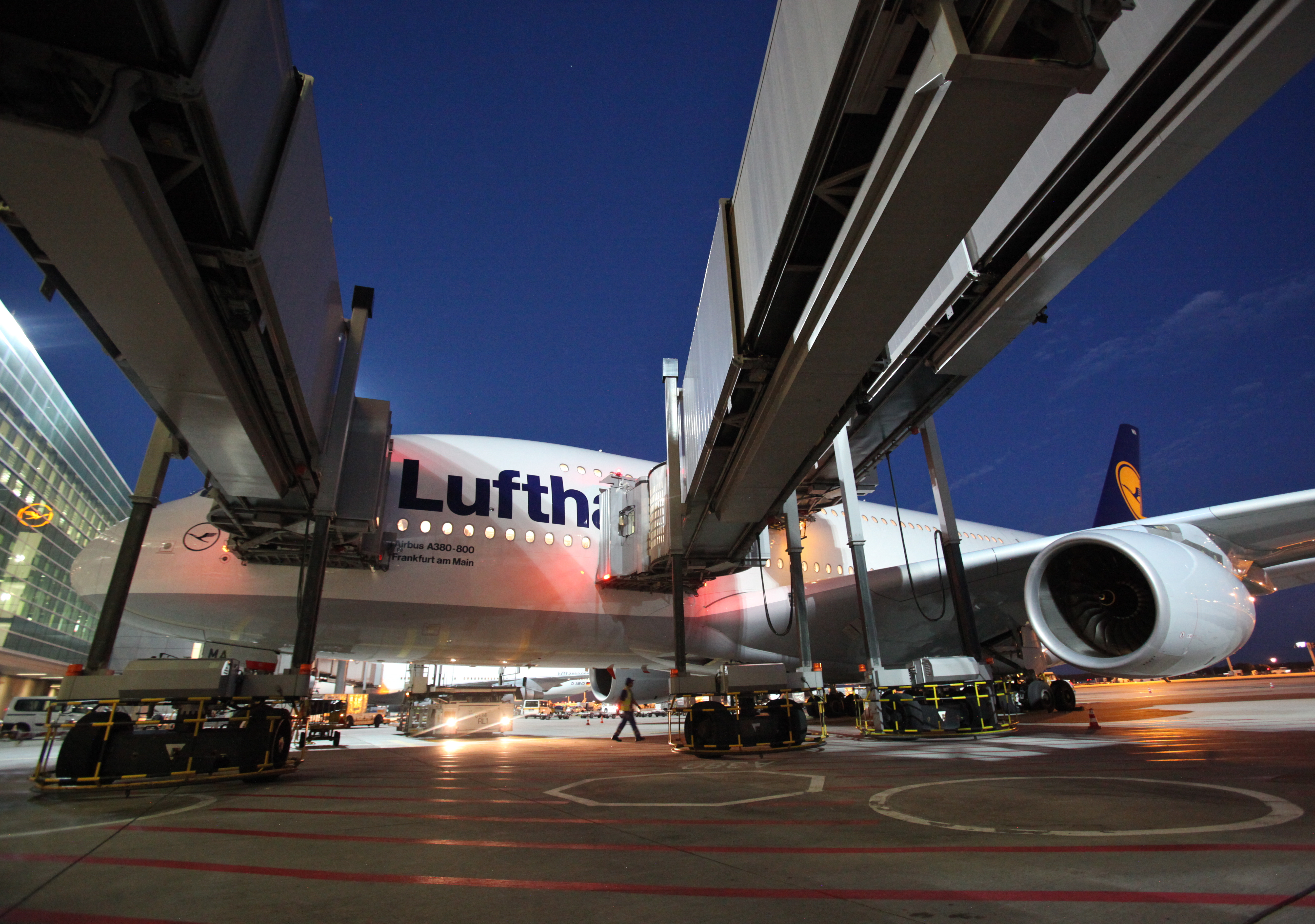 It was like a surreal sequence from the movies, driving around the bustling Lufthansa Frankfurt hub at night. Then we saw the alien craft – the largest aircraft ever manufactured in series (more than a one off, like the Soviet airplane that carried the Buran, for which there was just one). This is Lufthansa’s maiden A380, bathed in light and fed by three jetways. When they announced that there are 16 exits, I thought of the Titanic.